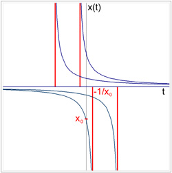 Exemple of differential equation without any solution defined on all R